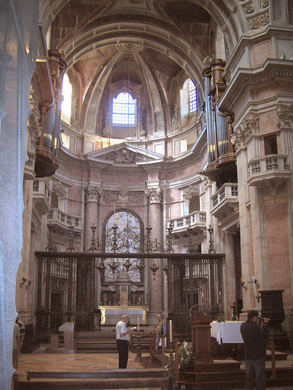 Transept of the church in the Mafra National Palace; Mafra, Portugal